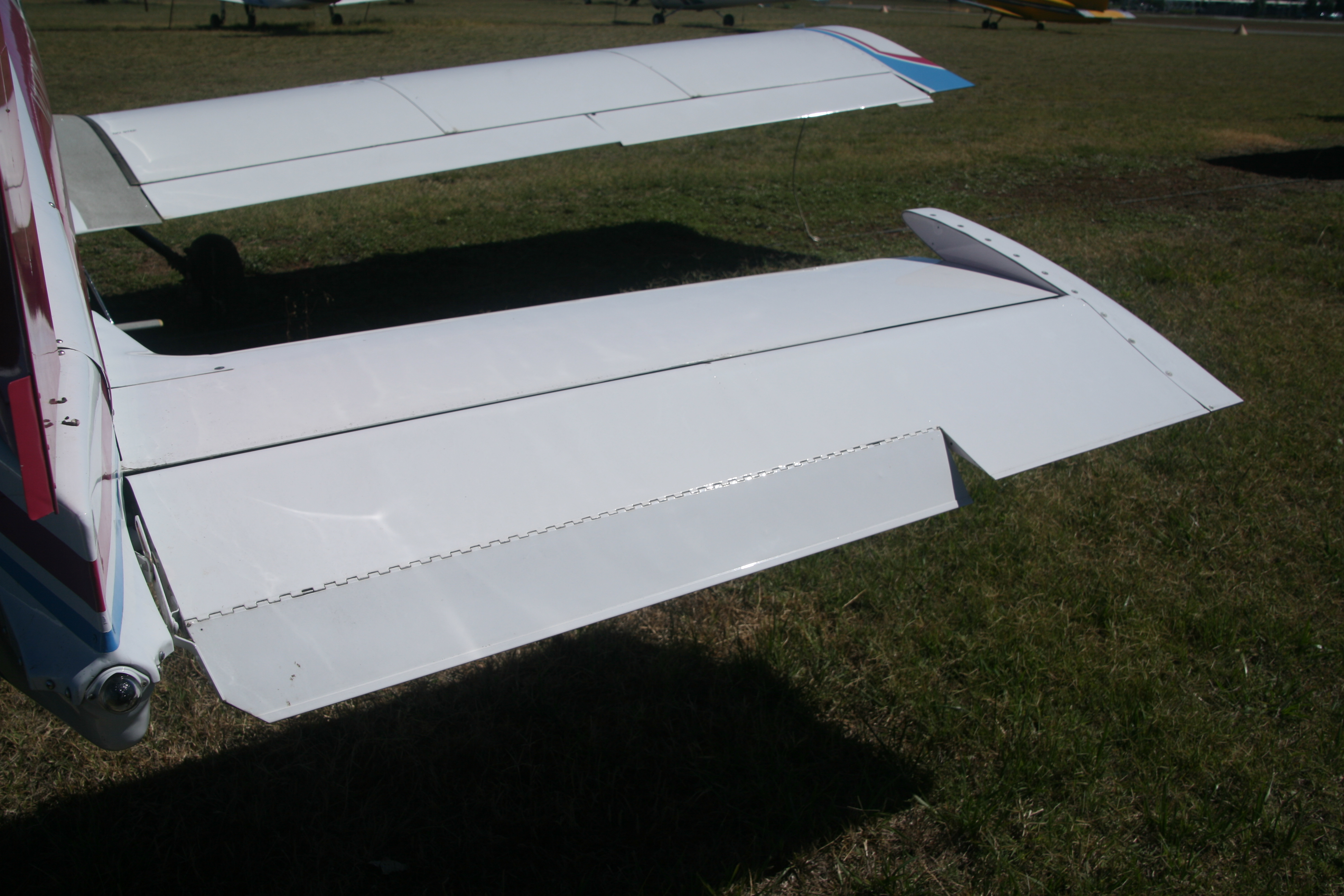 The starboard-side elevator and its corresponding trim tab on the back of a light aircraft's horizontal stabiliser. Digital image taken by YSSYguy on 21 February 2014, for use in the Elevator article. YSSYguy (talk) 02:49, 26 February 2014 (UTC)